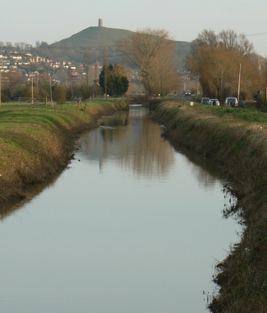 River Brue and Glastonbury Tor The River Brue in this area is held within embankments: heavy rain upstream will see the water level rise to the brim and then flood the fields. The dirty brown vegetation indicates recent flood levels. The B3142 (on the right of the picture) runs parallel to the Brue for four miles, and is often subject to flooding on the far side of Coldharbour Bridge. Glastonbury Tor is about two miles from the camera.